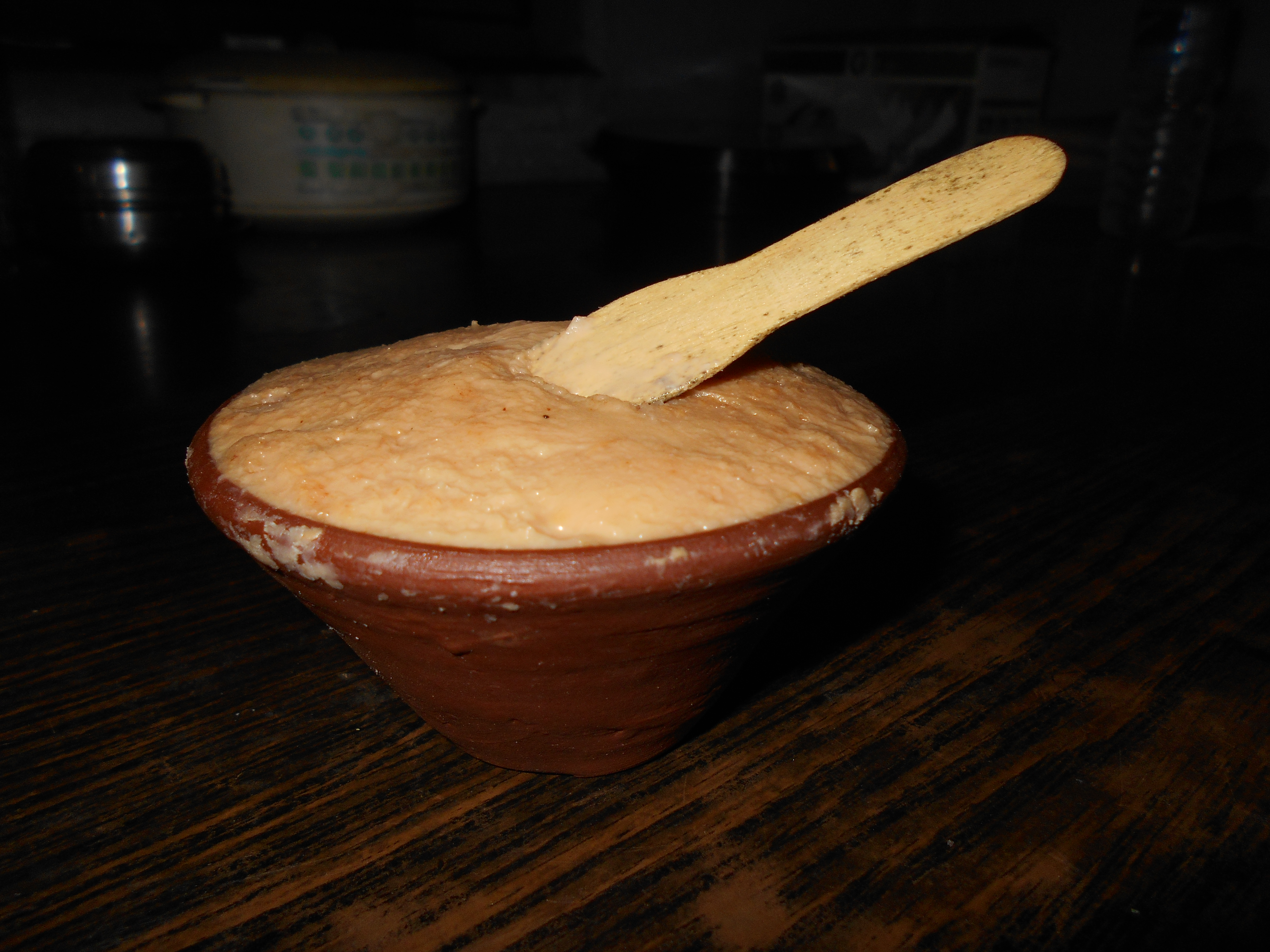 lal doi of nabadwip